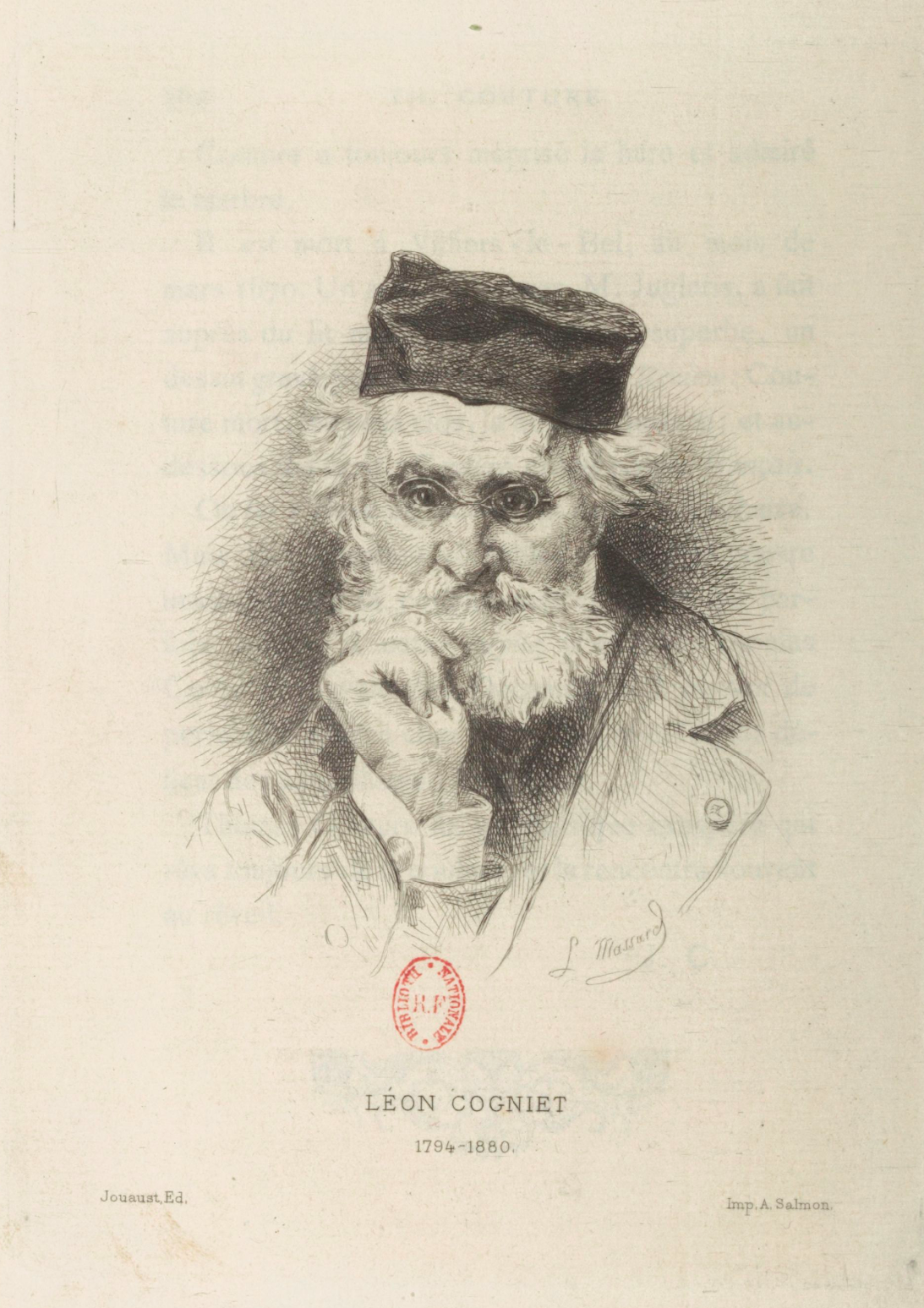 Léon Cogniet, etching by L. Massard, printed in Paris by Salmon for Jouaust, fr.: Jules Clarétie, Peintres et sculpteurs français, vol. I.